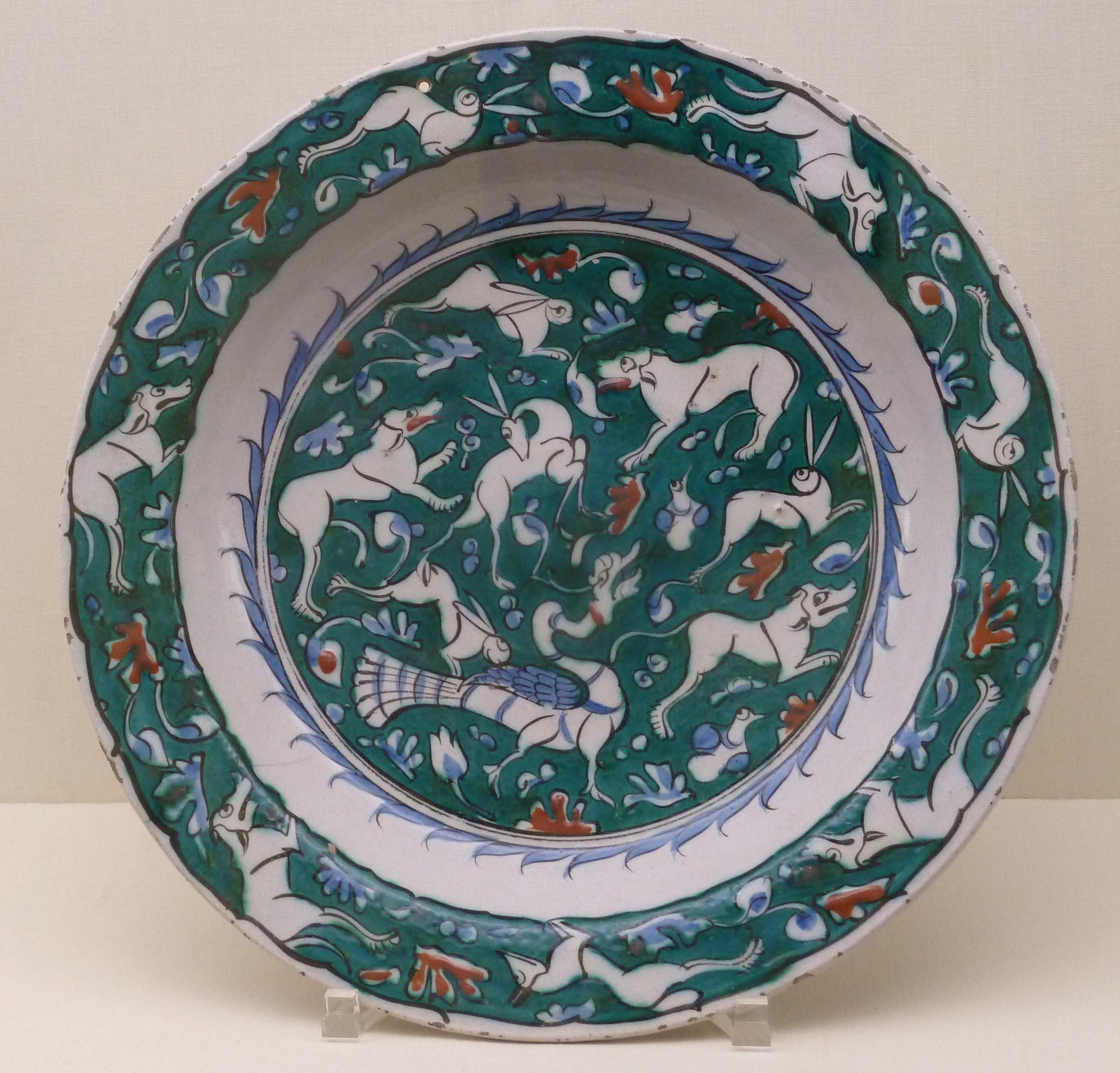 Iznik ceramic